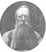 Giovanni Ettore Mattei